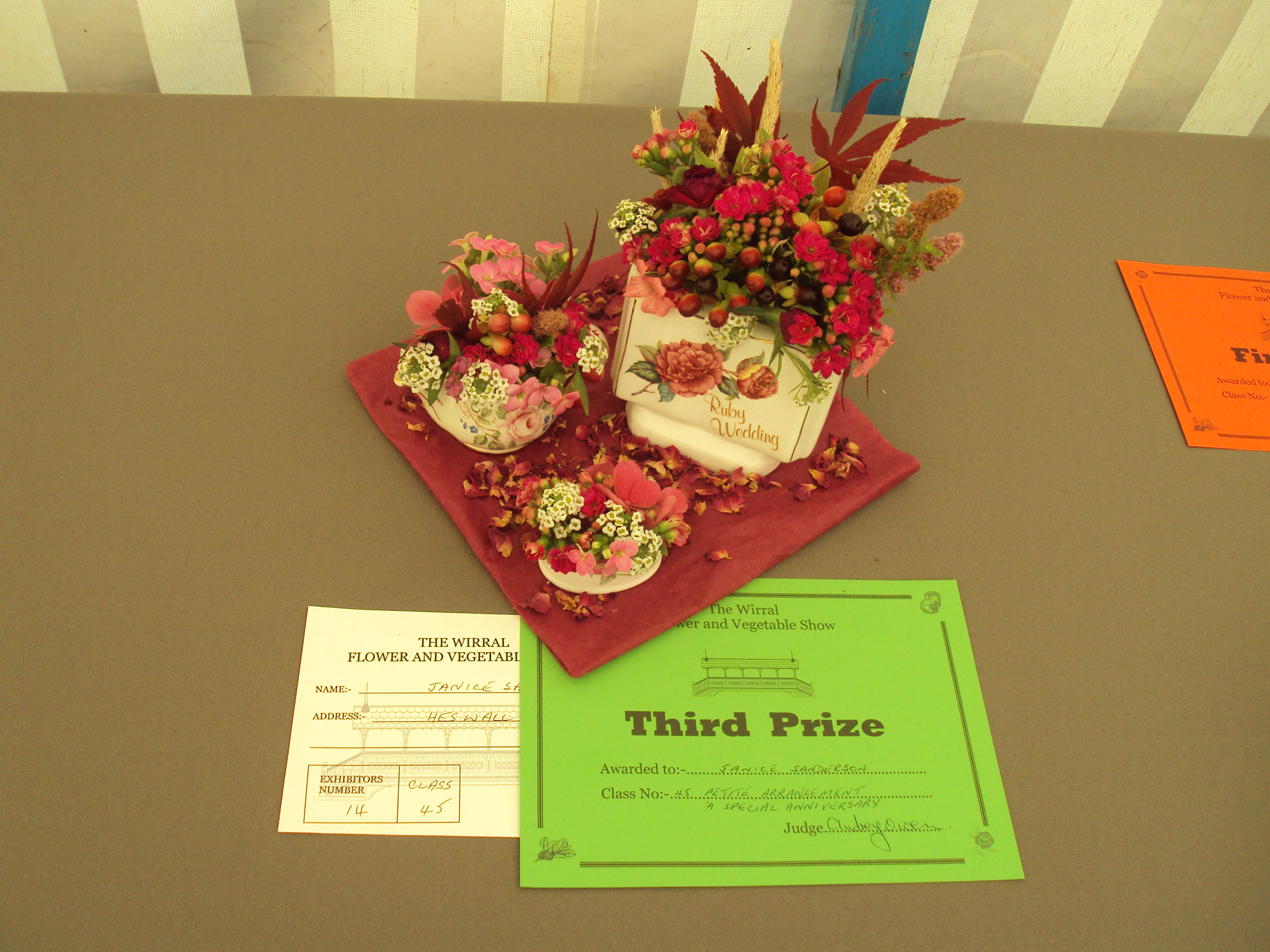 Petite arrangement at the 5th Wirral flower and vegetable show, Birkenhead Park, Merseyside, England.